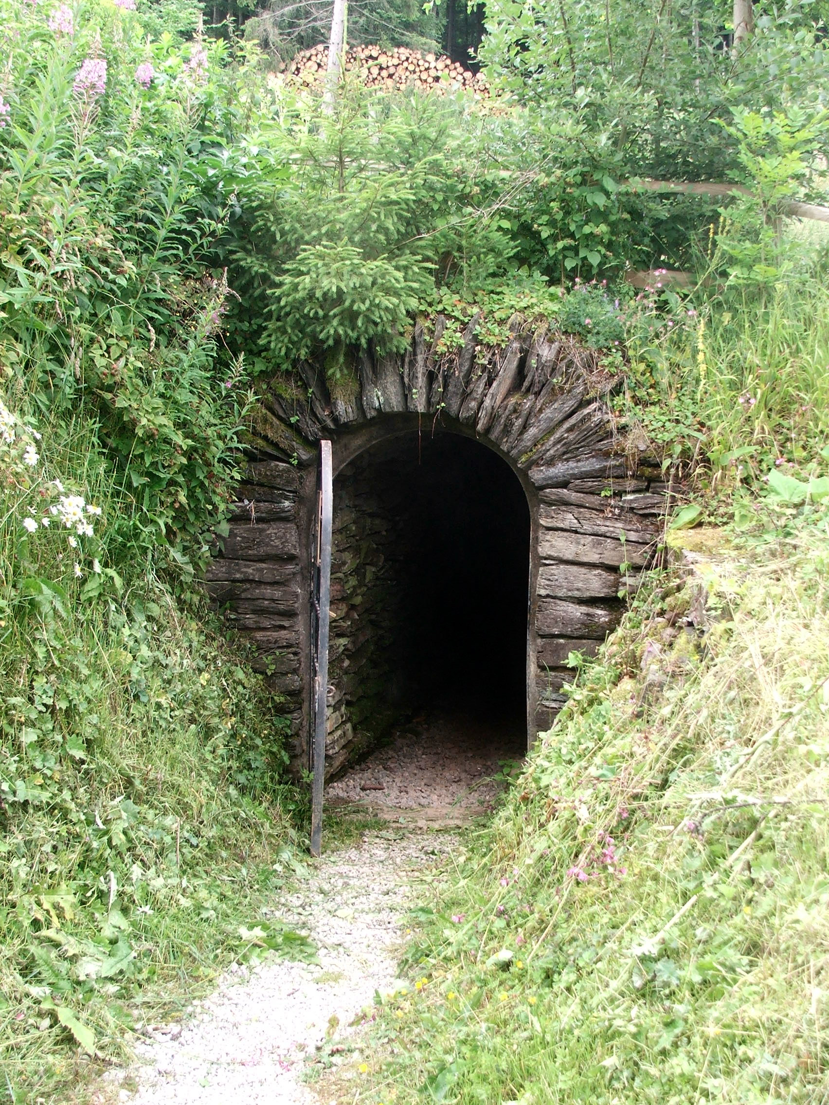 Entrance of Philipp-Stollen, Olsberg, Germany